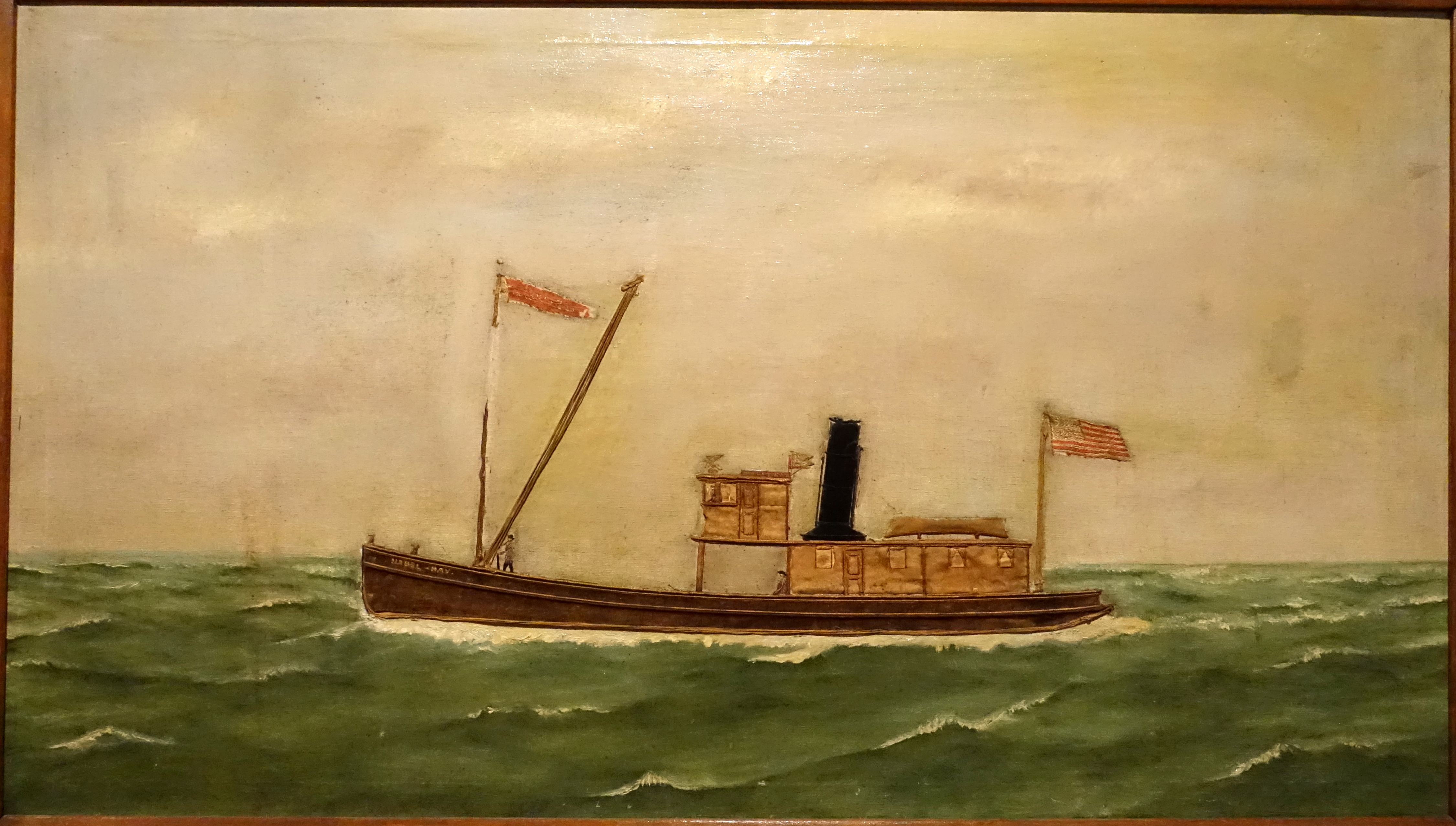 Exhibit in the Krannert Art Museum, University of Illinois at Urbana-Champaign - Urbana-Champaign, Illinois, USA. This work is old enough so that it is in the public domain. Willis lived and worked in New York City.